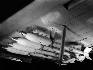 5-Inch Forward Firing Aircraft Rockets (FFARs) mounted on a Douglas SBD Dauntless dive-bomber at Harvey Field, Inyokern, California.